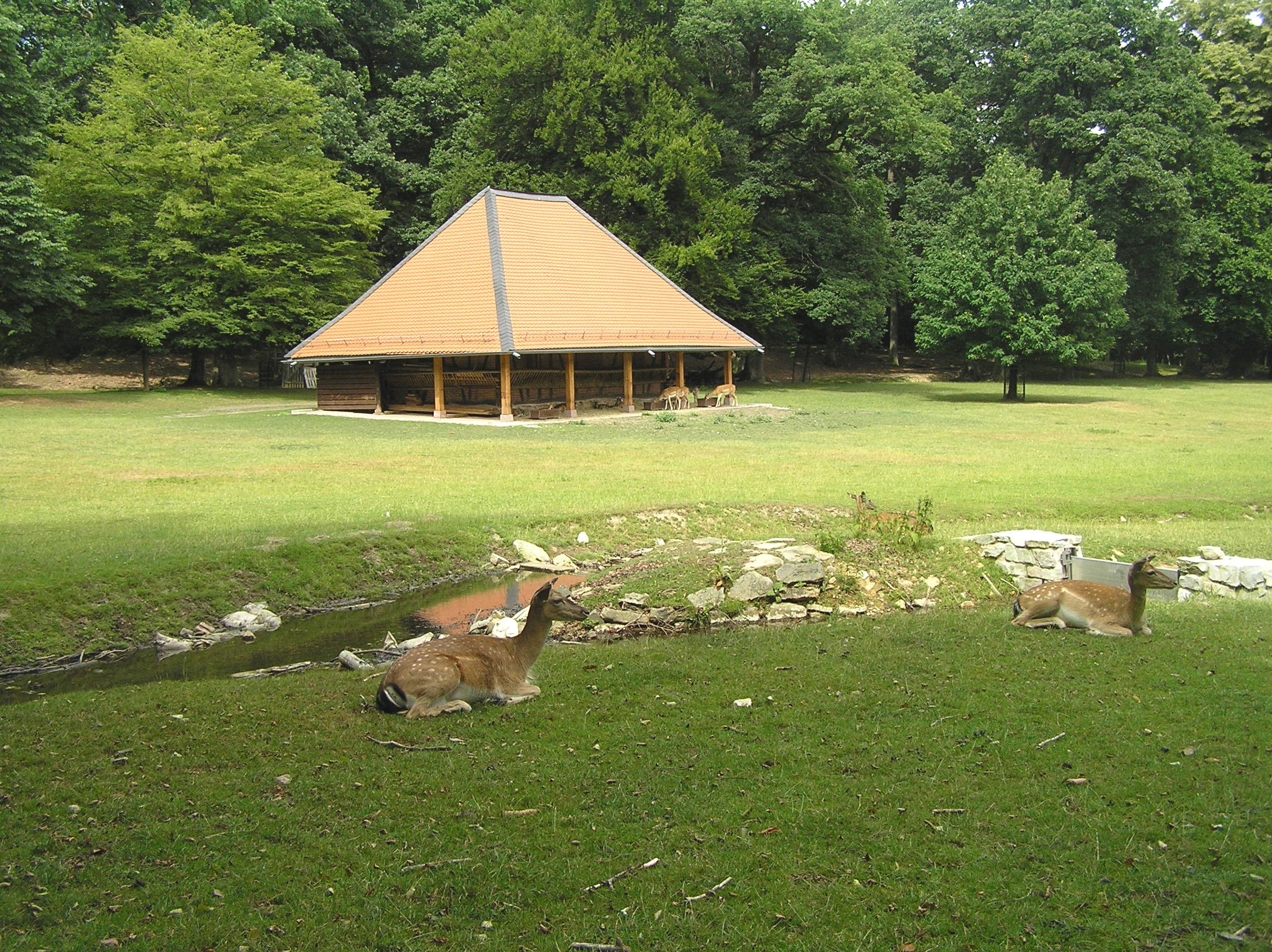 Hirschgarten Dornholzhausen, Dornholzhausen, Bad Homburg, Germany